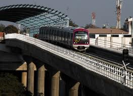 Bangalore- metro